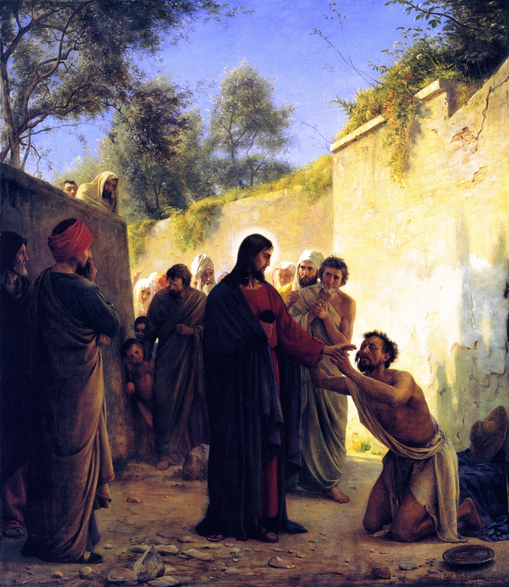 Faithful reproduction of the painting "Healing of the Blind Man". Bible references: Mark 10:46-52, Luke 18:35-42.